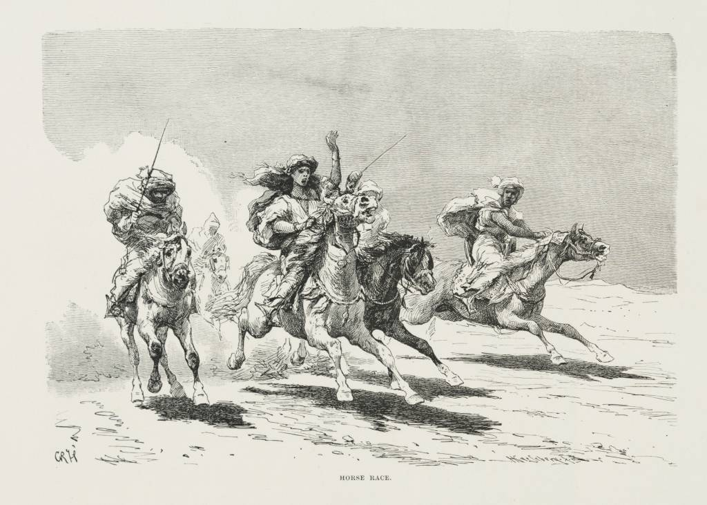 A horse race.